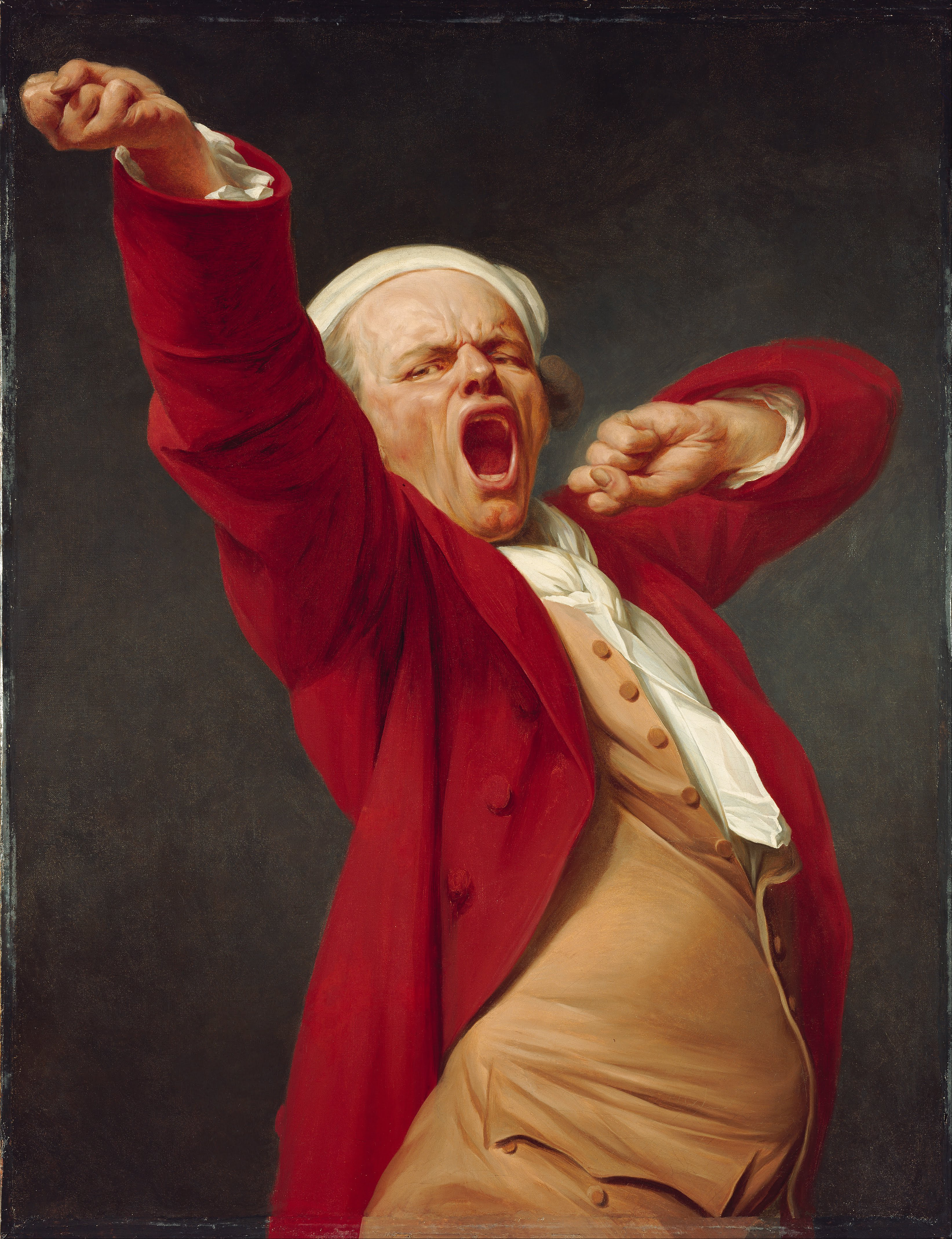 "Self-Portrait, Yawning" by Joseph Ducreux (French - Google Art Project)